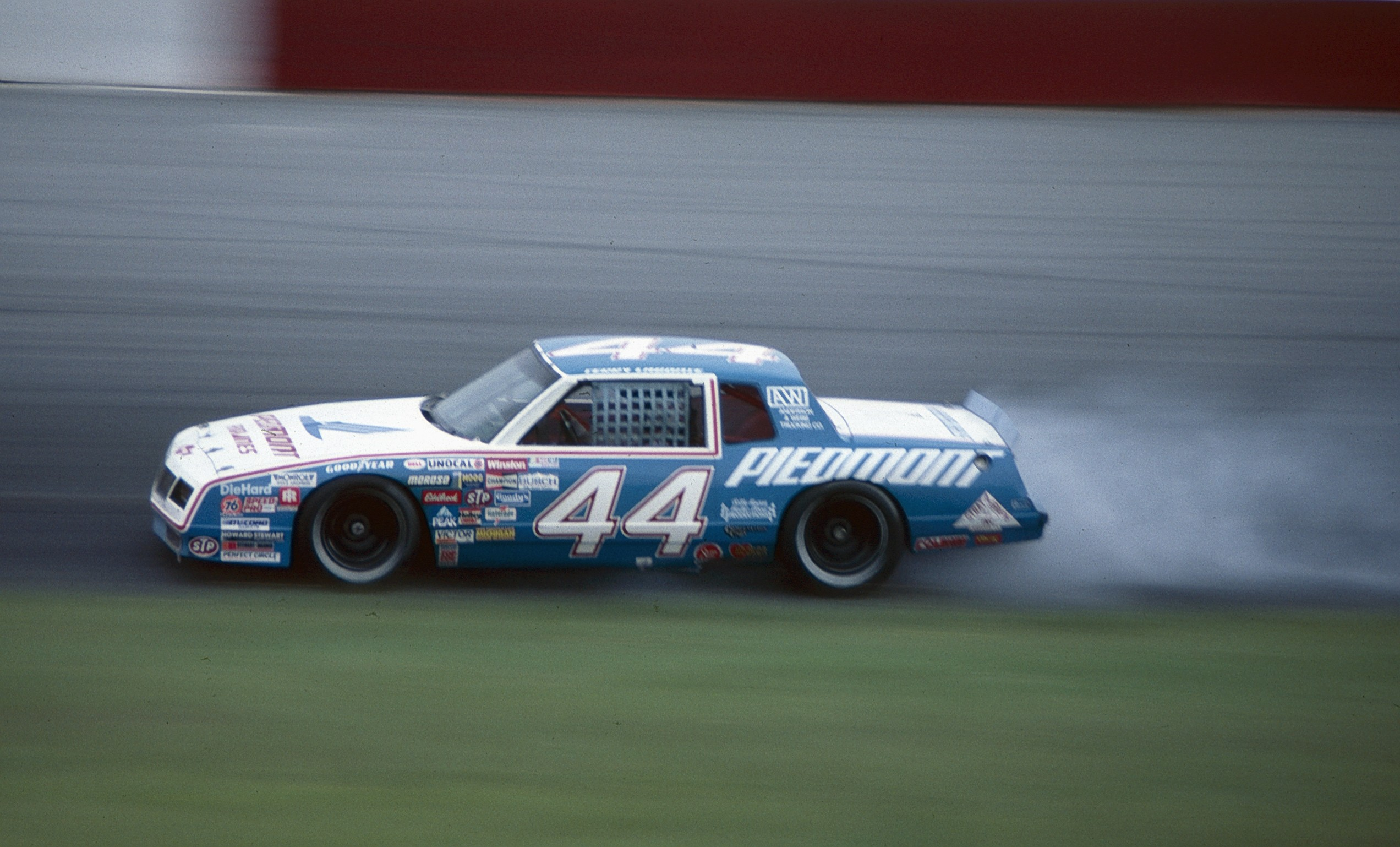 Terry Labonte's #44 Piedmont NASCAR 1985 racecar at Pocono Raceway. Photo by Ted Van Pelt